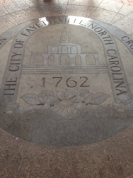 The Market House served as a town market until 1906. Photo taken by Webelos Scouts of Den 3, Pack 895.